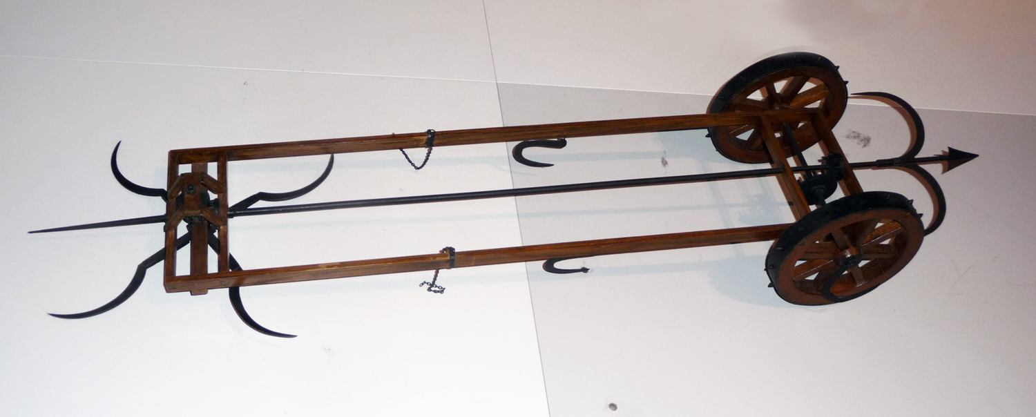 Scythed chariot model by da Vinci